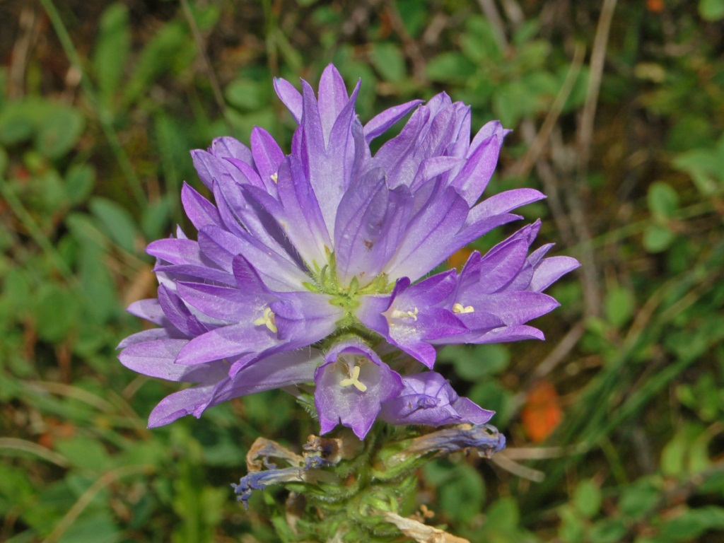 Campanula spicata - Parque des Ecrins, France